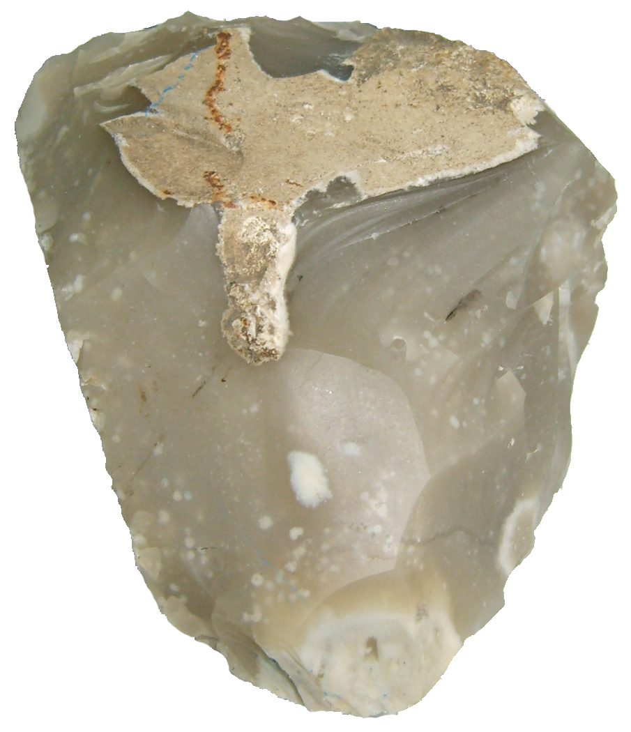 A light coloured sample of Miorcani flint from the Cenomanian chalky marl layer of the Moldavian Plateau. This sample came from the flint mine near Rădăuţi-Prut. (ca. 7.5 cm wide)